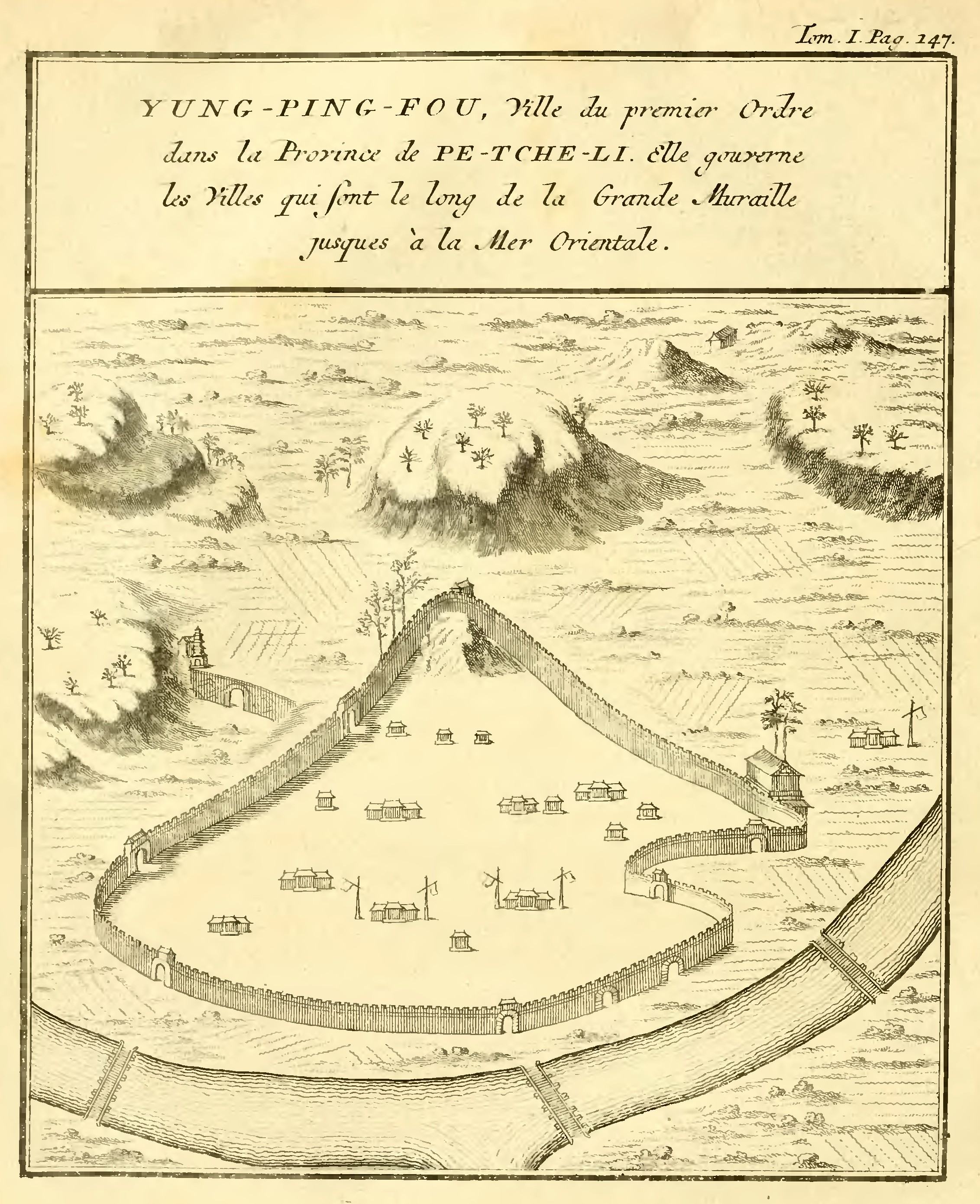 A map of Yongpingfu (永平府) in Beizhili (北直隶), now Lulong (卢龙) in Hebei, from Du Halde's Description of China, Vol. I.